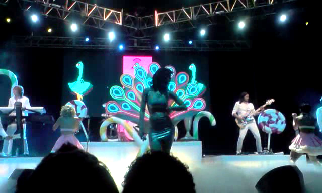 Katy Perry perfoming "Peacock" in Budapest, on October 1, 2010.